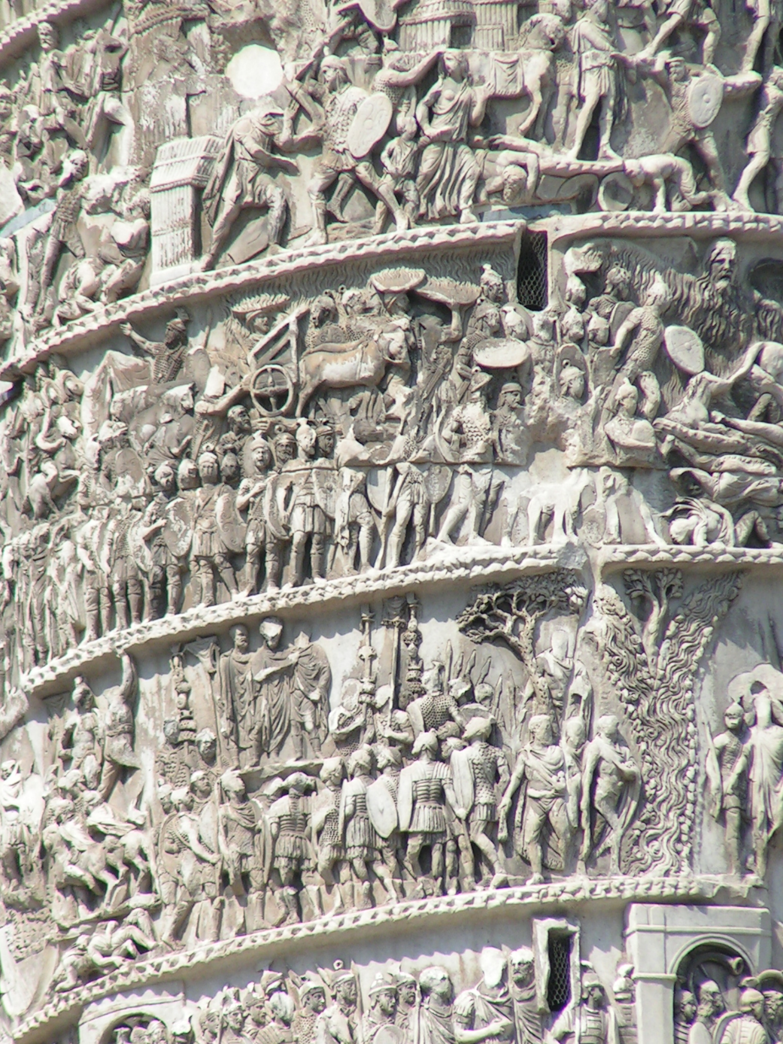 The Column of Marcus Aurelius is a Doric column, with a spiral relief, built in honour of Roman emperor Marcus Aurelius and modeled on Trajan's Column. It still stands on its original site in Rome, in piazza Colonna, before Palazzo Chigi.